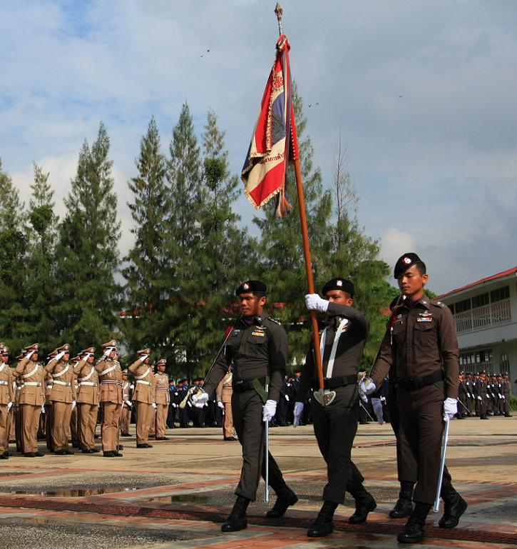 Border Patrol Police Colours : ธงชัยประจำกองบัญชการตำรวจตระเวนชายแดน ซึ่งได้รับพระราชทานจากพระบาทสมเด็จพระเจ้าอยู่หัวเมื่อวันจันทร์ที่ 13 ต.ค.2495 พร้อมกับหน่วยตำรวจอื่นรวม 6 หน่วย